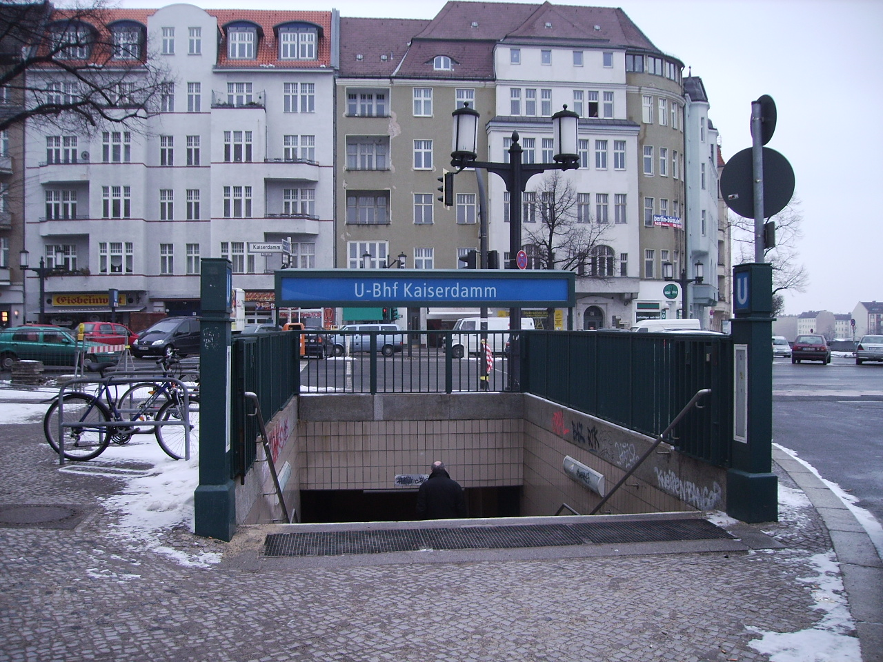 Entrance to the Berlin underground station Kaiserdamm, line U2